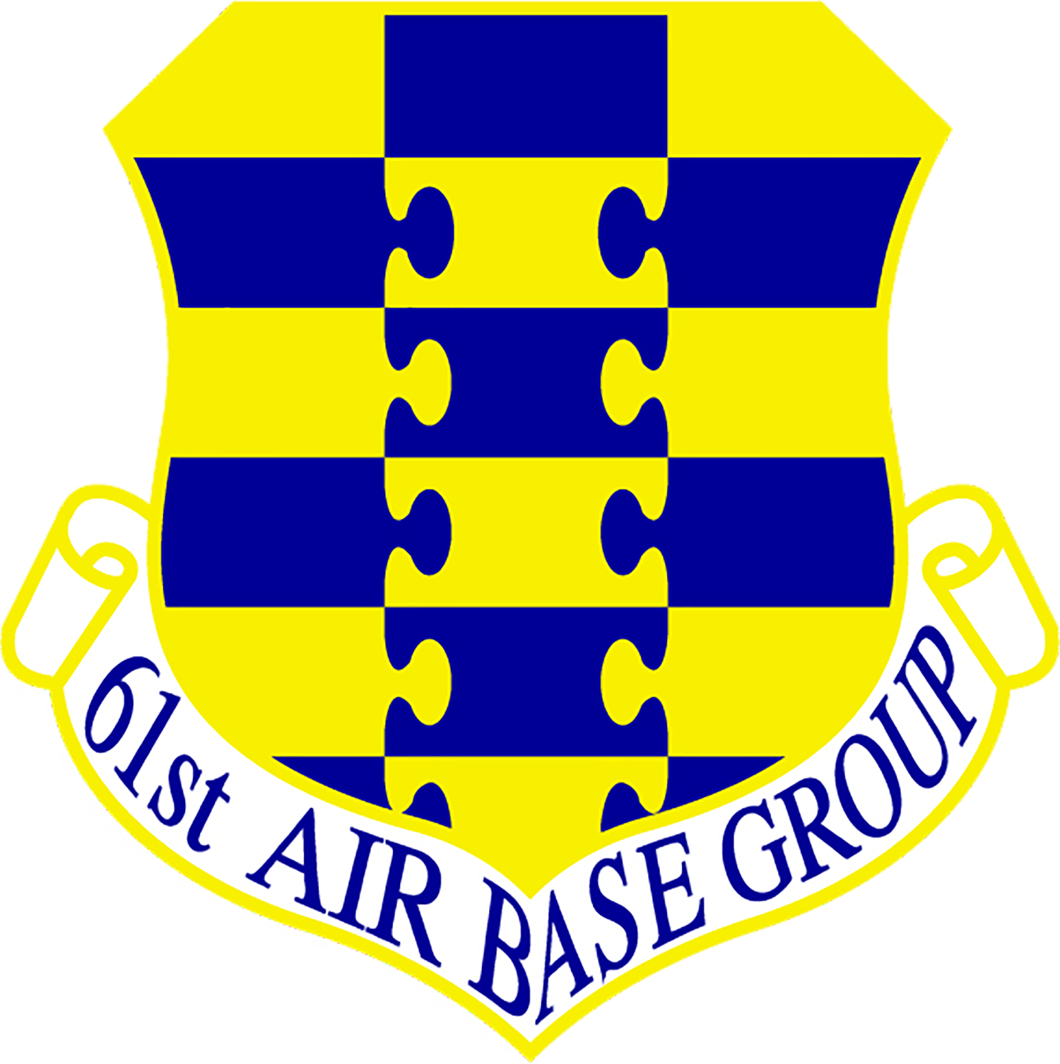 Unit emblem of the 61st Air Base Group, US Air Force